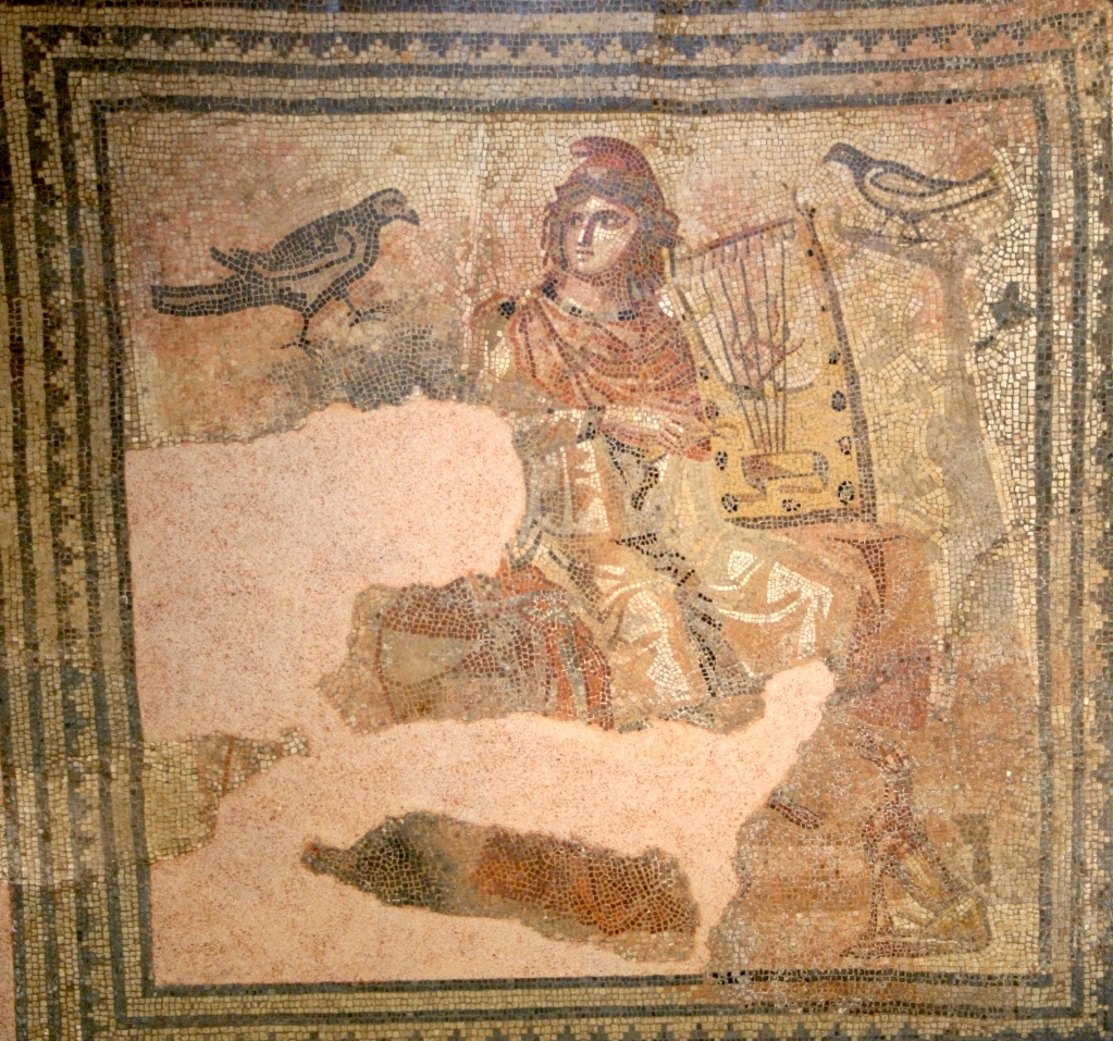 Orpheus mosaic at Dominicans Museum, Rottweil, Germany (Roman mosaic, end of 2. century a.C.; found at villa D near by Rottweil, Orpheus with Kithara, dog, storc, raven and magpie)